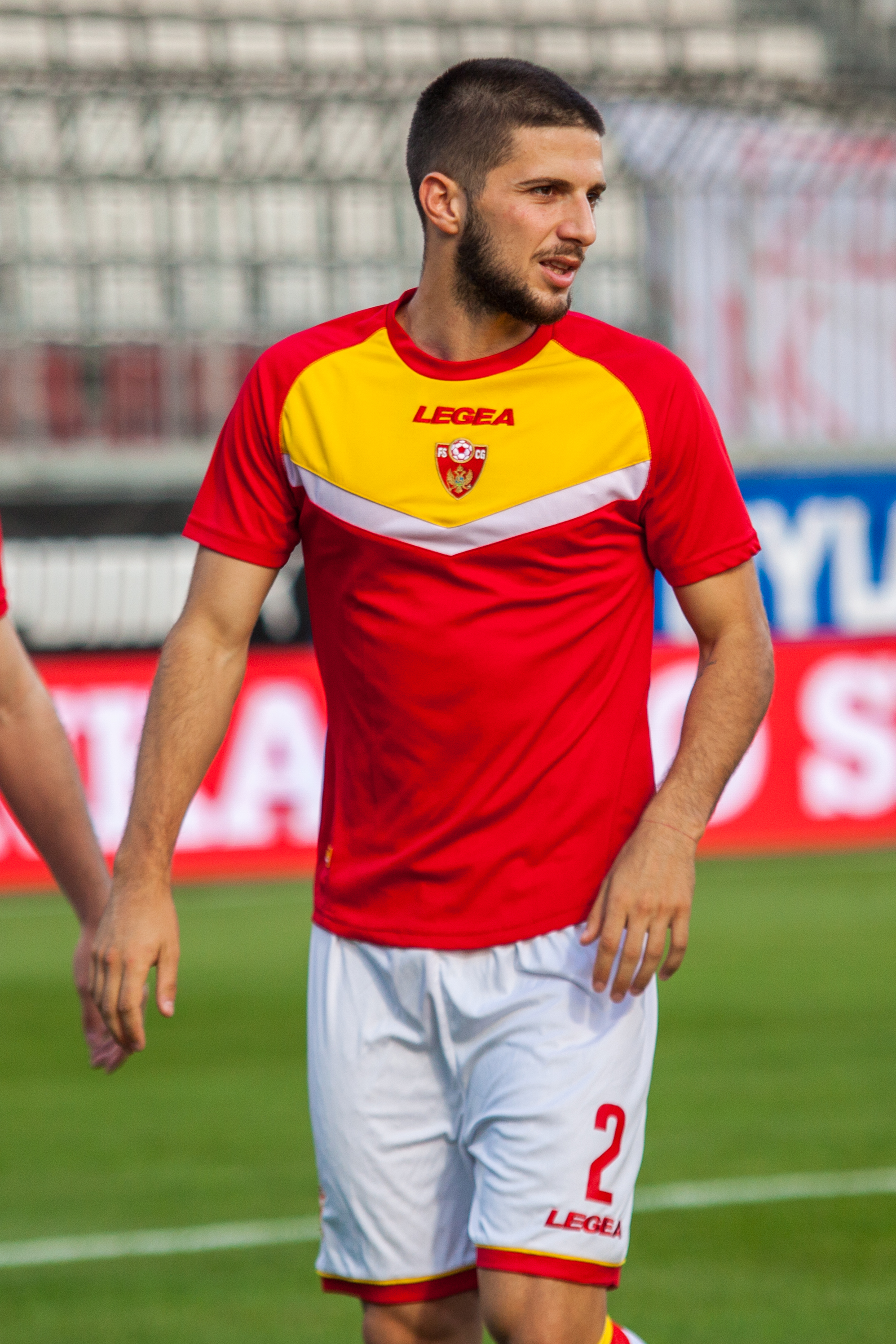 Deni Hočko at EURO 2020 Qualifying Round Czech Republic-Montenegro (10/6/2019, Ander Stadium, Olomouc) Personality rights warningAlthough this work is freely licensed or in the public domain, the person(s) shown may have rights that legally restrict certain re-uses unless those depicted consent to such uses. In these cases, a model release or other evidence of consent could protect you from infringement claims.